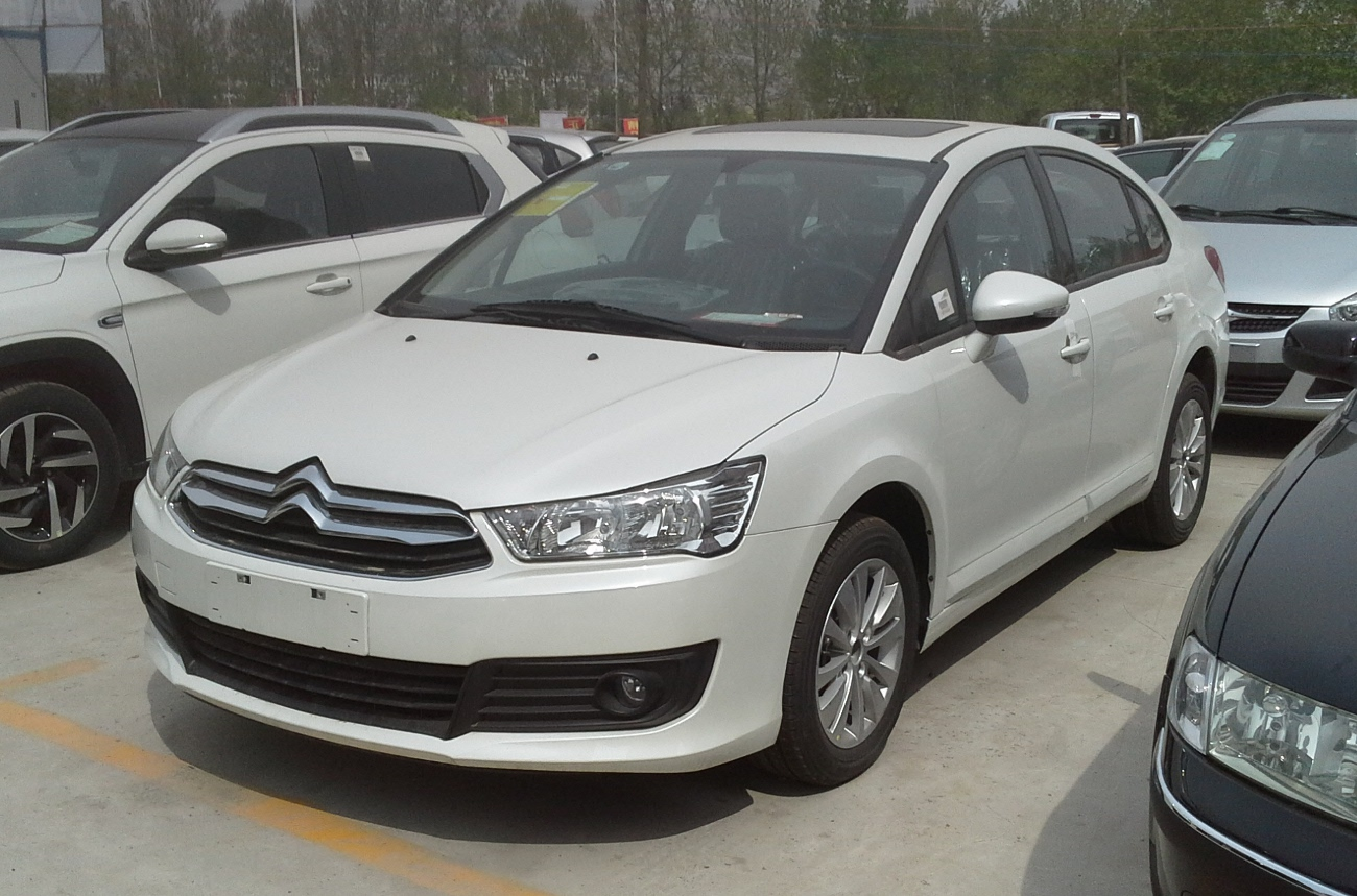 Citroën C-Quatre sedan facelift photographed in Zhengzhou, Henan province, China.